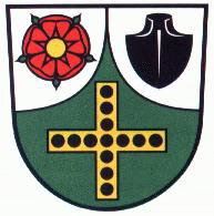 Coat of arms of Altkirchen